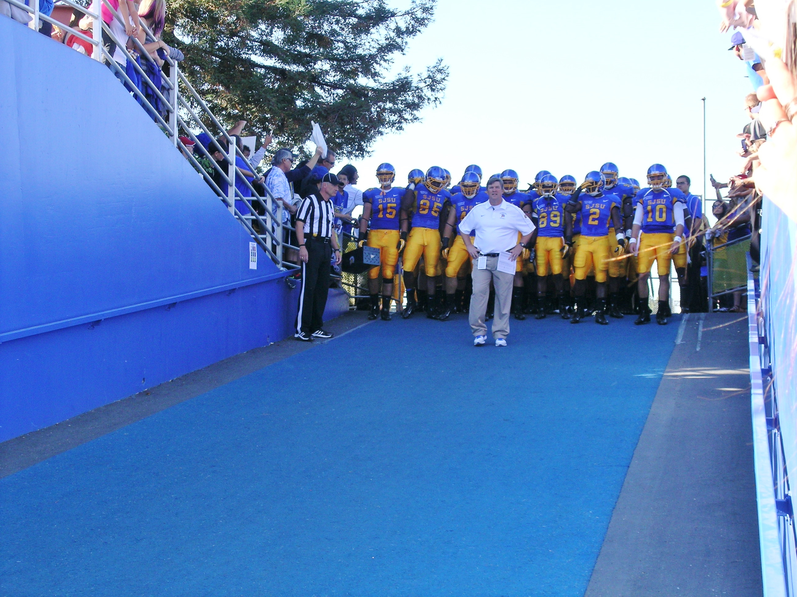 San Jose State football coach Mike MacIntyre and SJSU football players before a game.